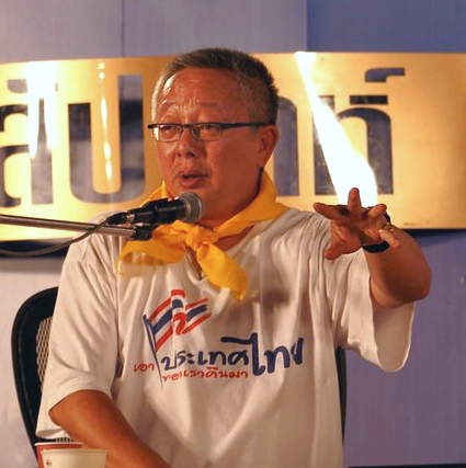 Sondhi Limthongkul presenting his show "Mueang Thai Rai Sapda" at a gathering of the People's Alliance for Democracy on 17 March 2006